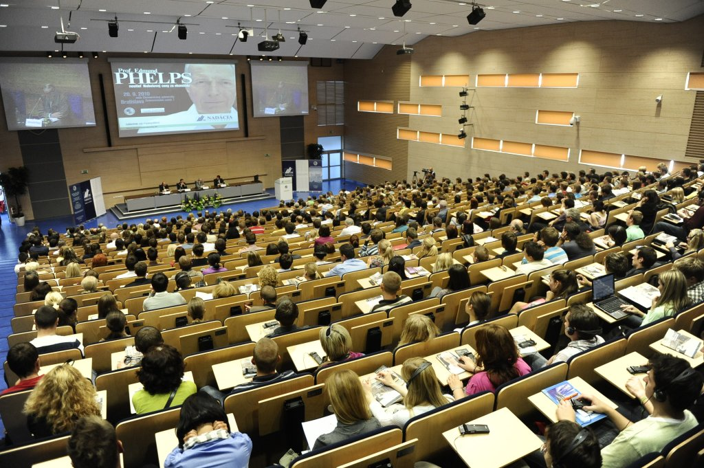 University Hall of the University of Economics in Bratislava at Dolnozemská cesta 1, Bratislava, Lecture of Nobel Prize Laureates